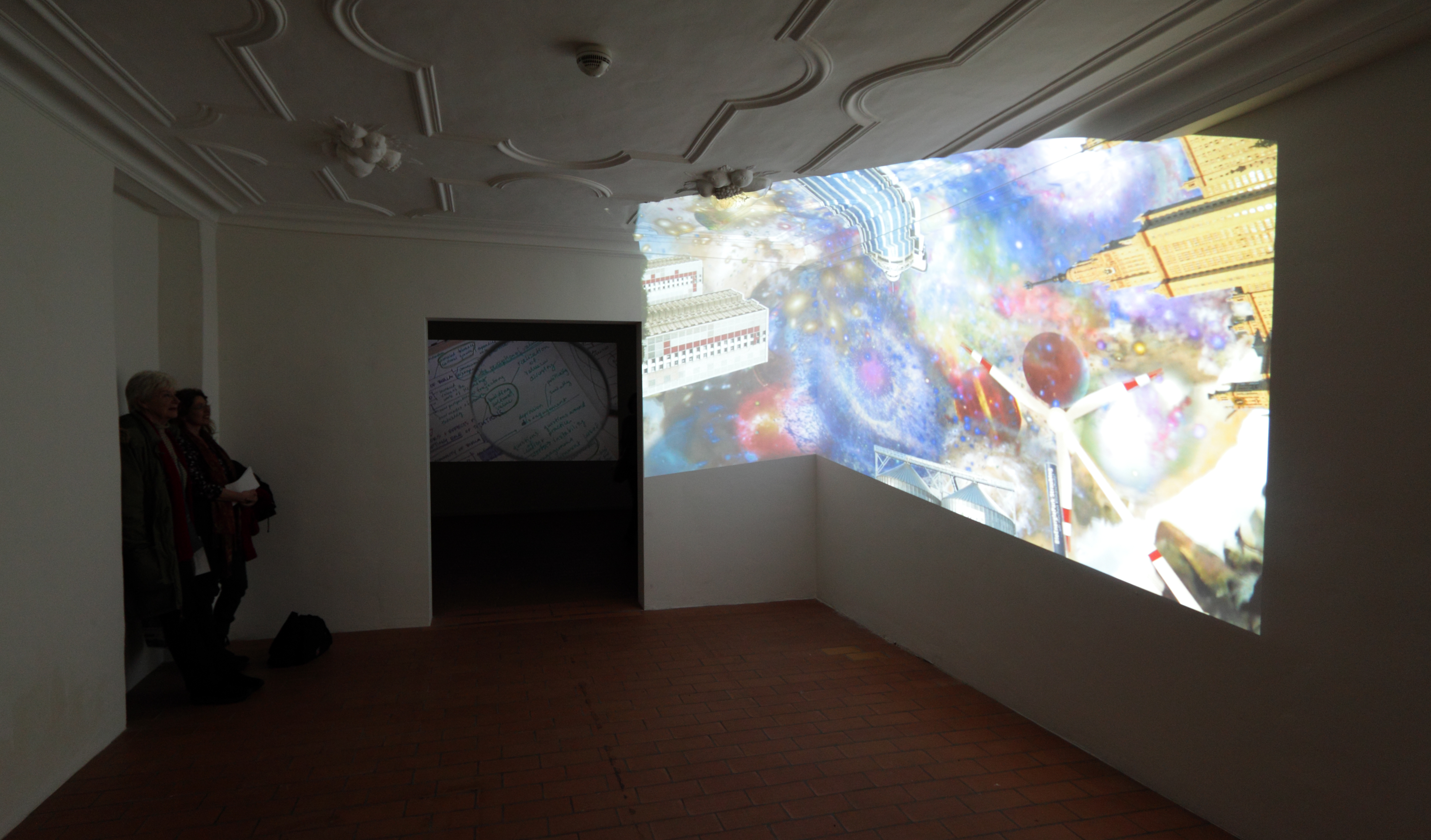 Video 'After Tiepolo' by Myriam Thyes at the exhibition 'RaumWelten', Museum Bärengasse, Zurich, Switzerland, 2013.